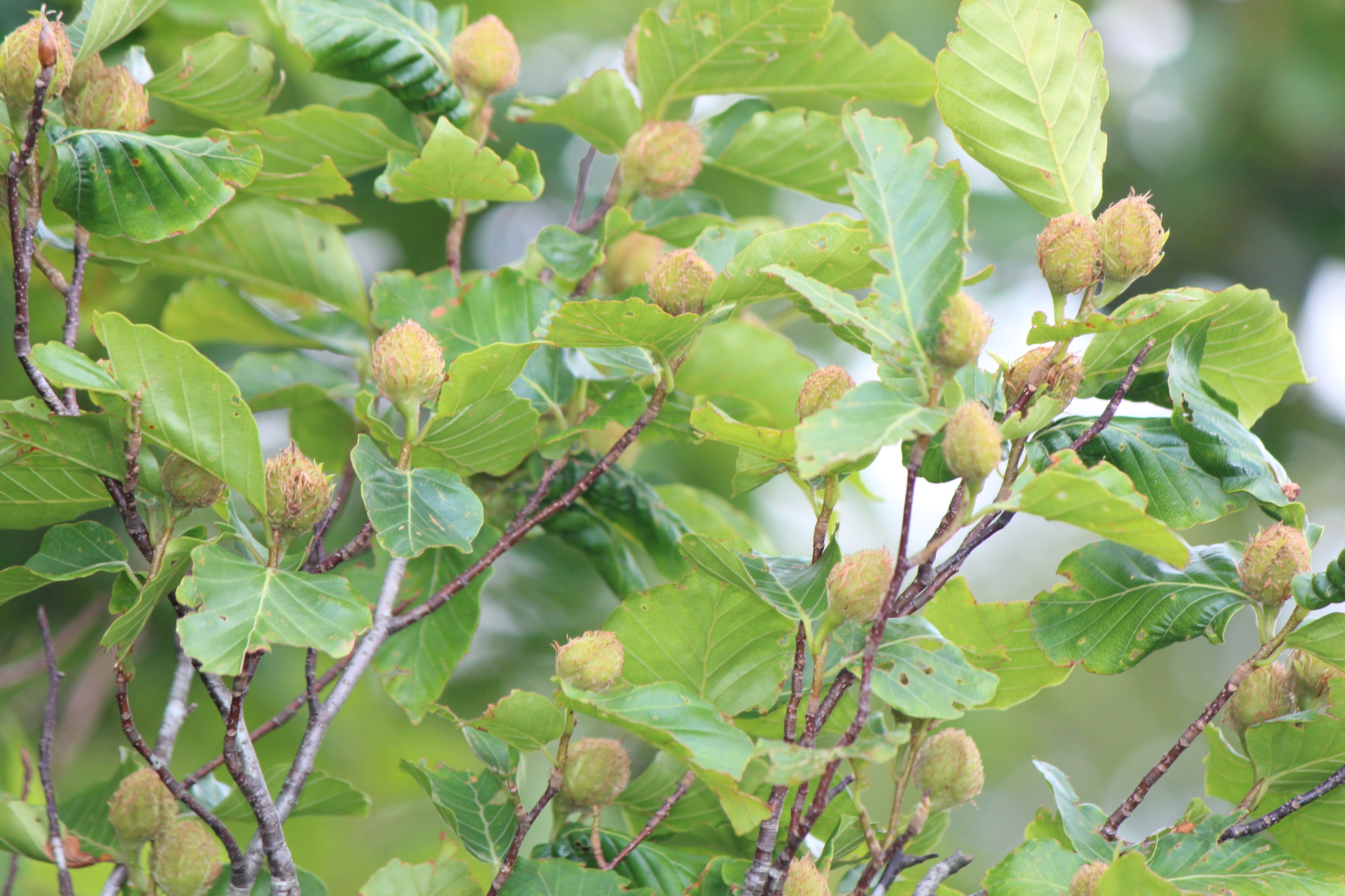 Fruits of Fagus crenata, in Mount Kanmuri, Gifu prefecture, Japan.